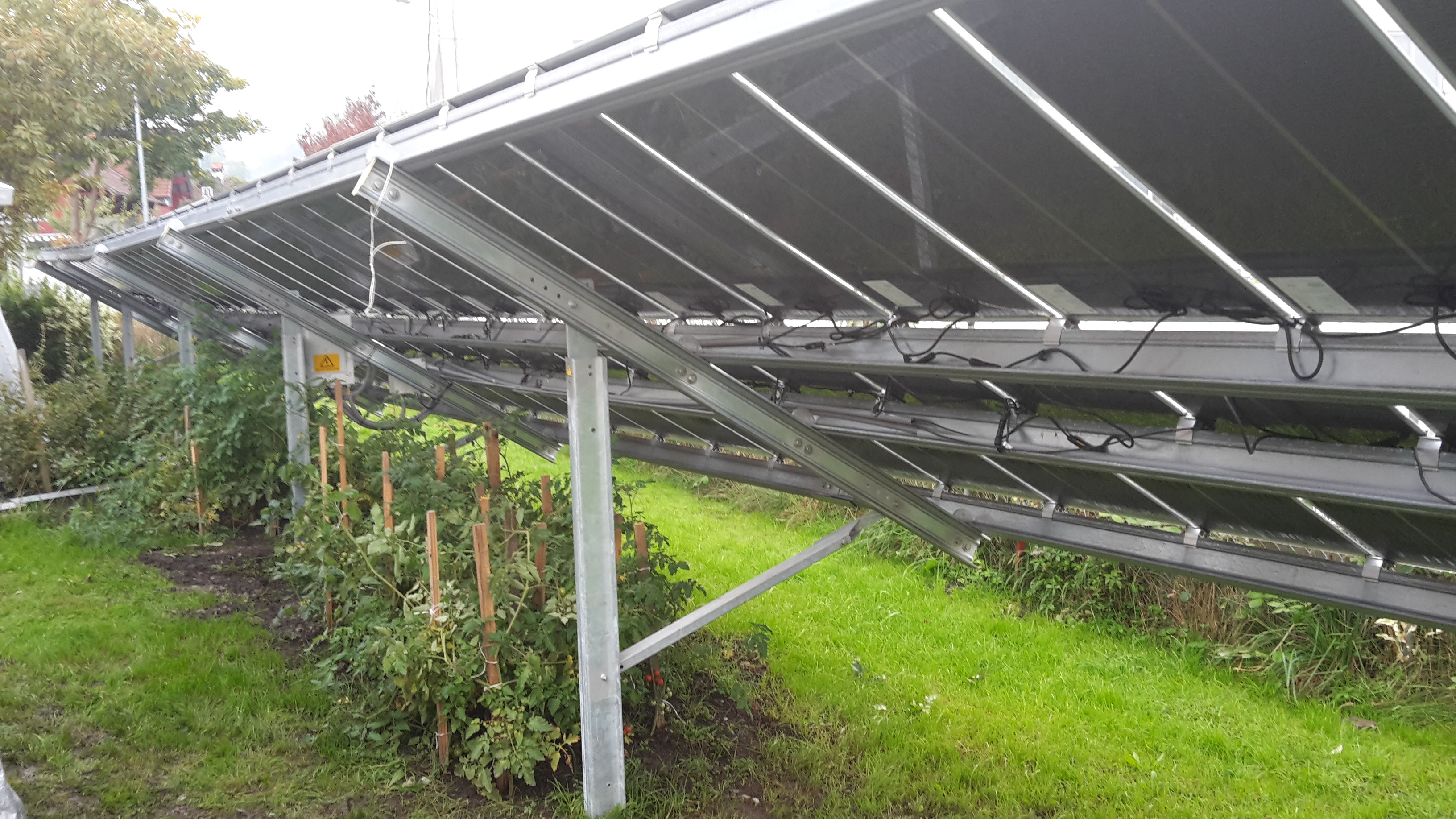 Photovoltaic systems can be used for gardening (horticulture) to protect sensitive plants (here tomatoes, for example). Agrivoltaics, Agro-PV, Agrar-PV.